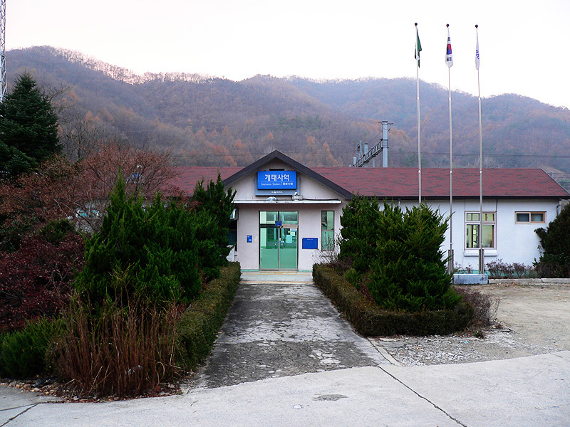 KORAIL Gaetaesa Station